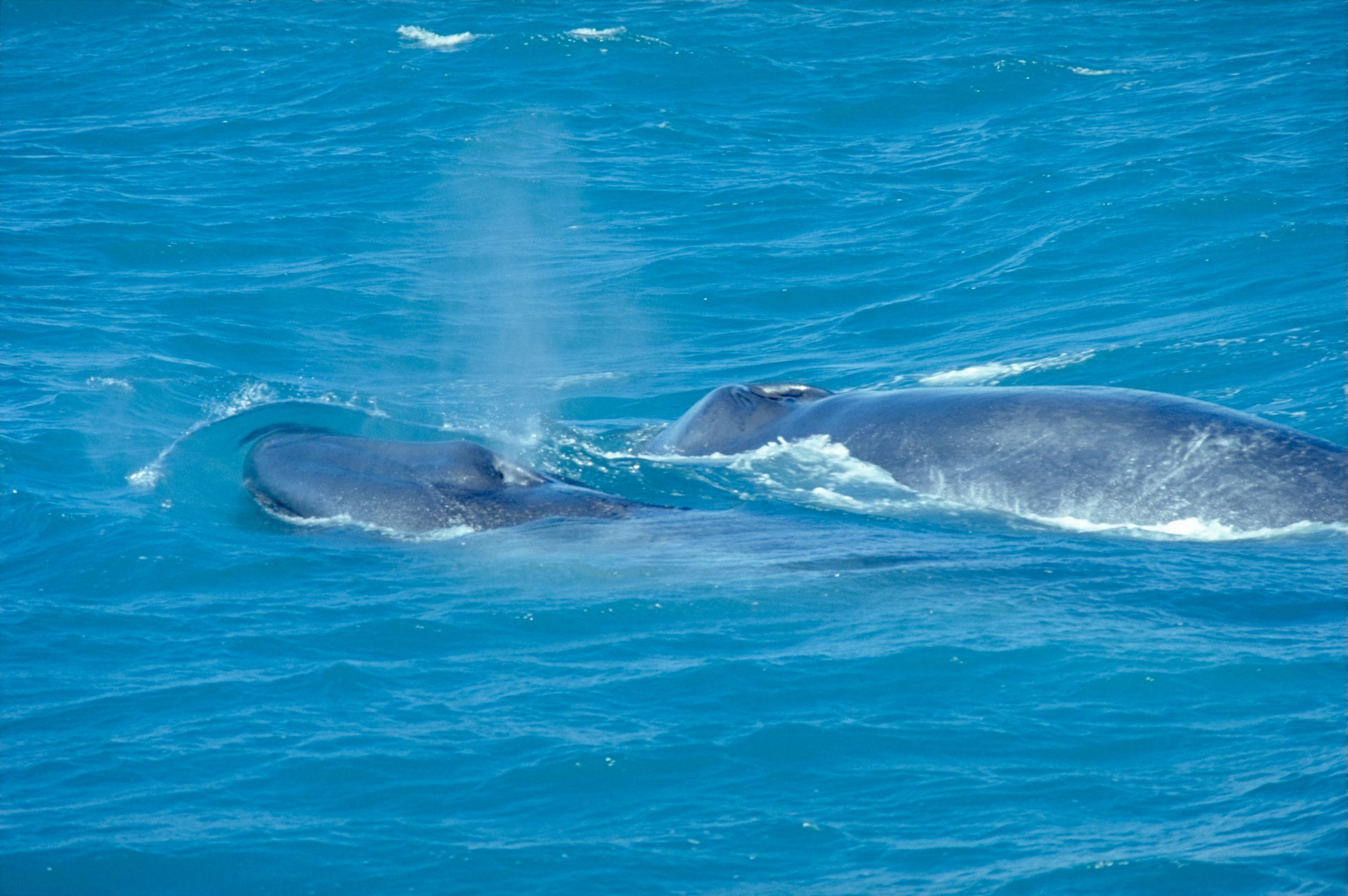 Blue Whale with Calf, Ólafsvík, Iceland Photo was taken using the following technique: Film: Kodak Elitechrome Extracolor Lens: 4/70-210 Filter: none Body: Minolta 7 Support: none Image with Information in English Bild mit Informationen auf Deutsch